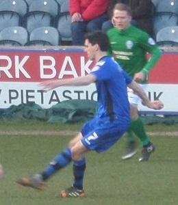 Peter Vincenti in 2015